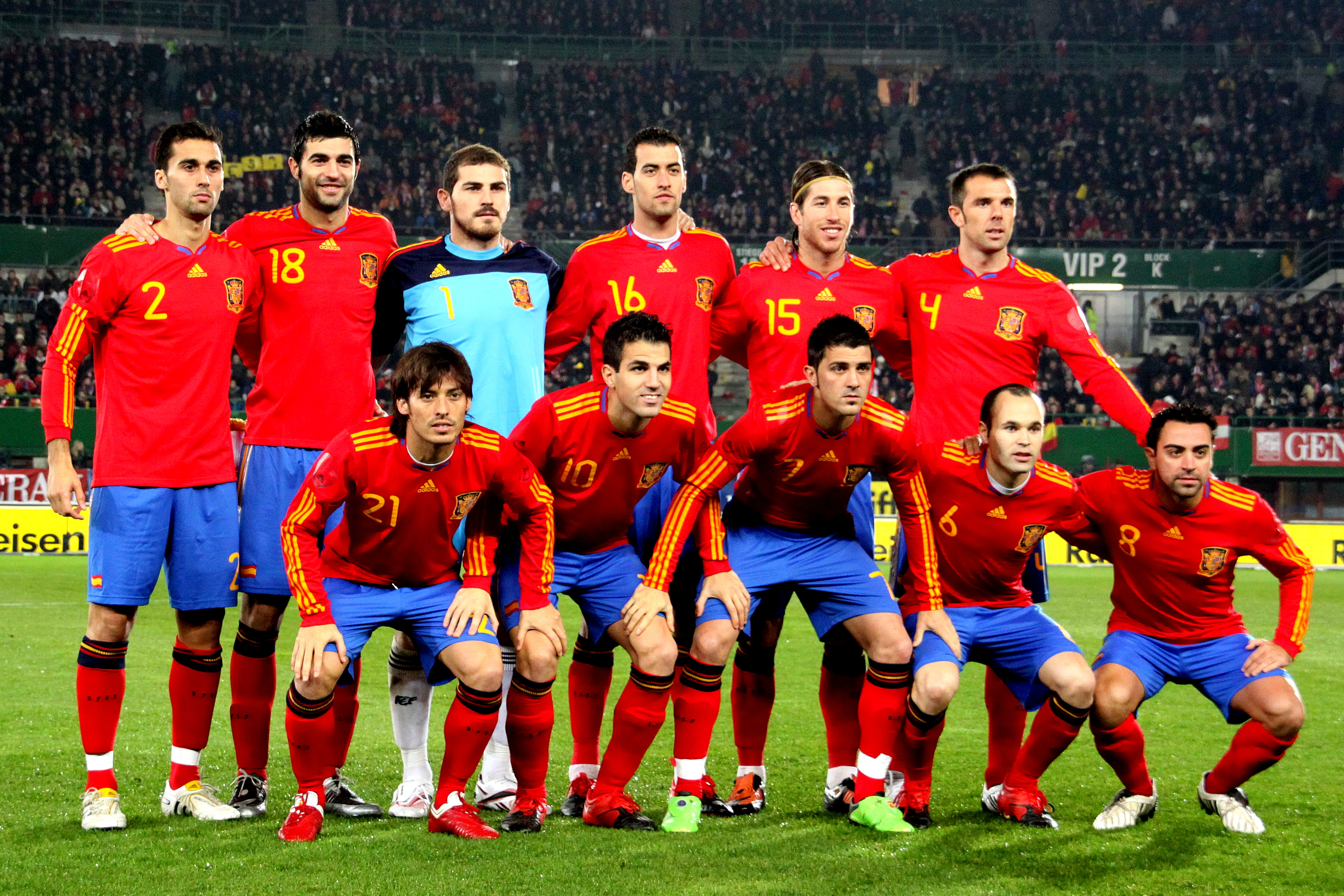 Spain national football team at 2009-11-18 in Vienna (Ernst-Happel-Stadion) vs. Austria national football team (5:1) → For the names of the players move the mouse over the photo.